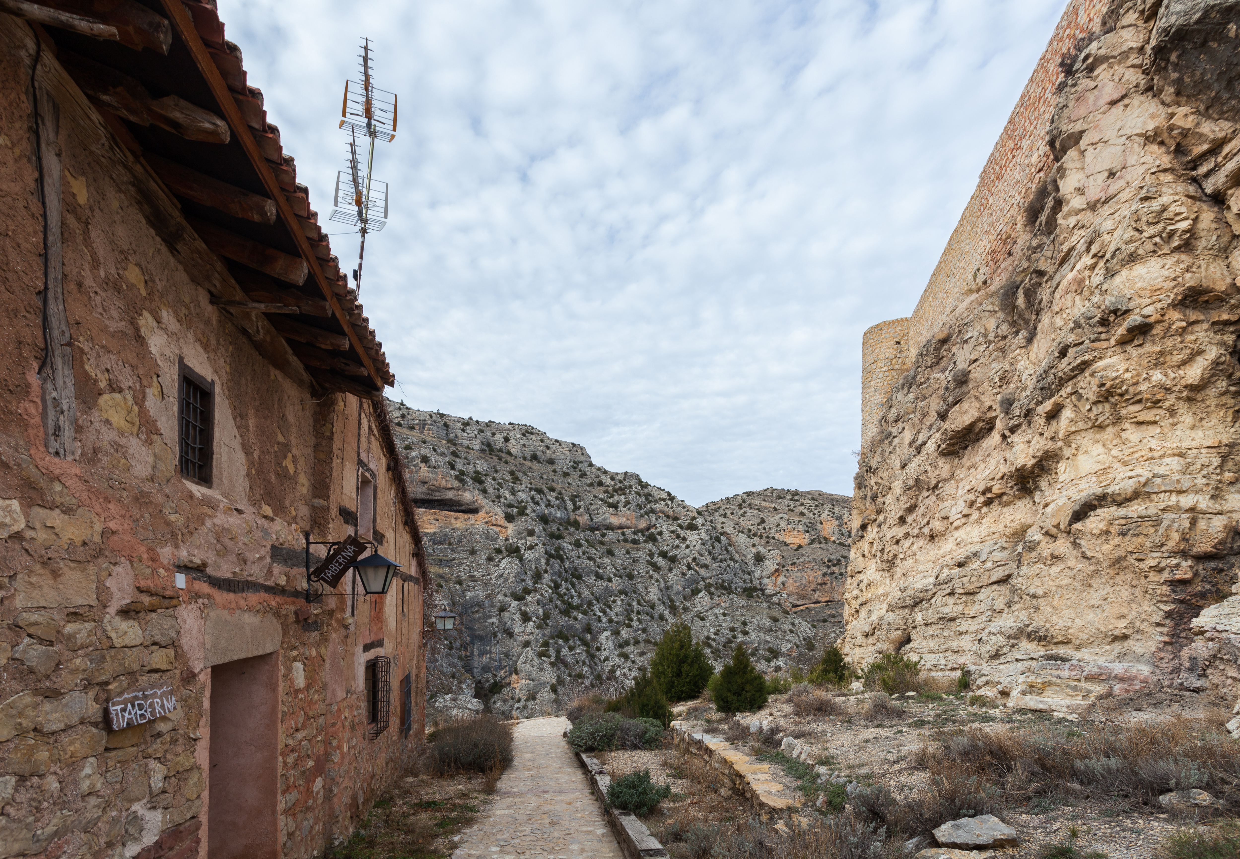 Albarracín, Teruel, Spain